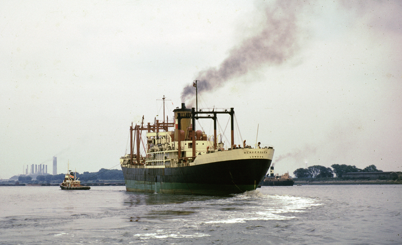 Beaverglen on the Thames in 1961